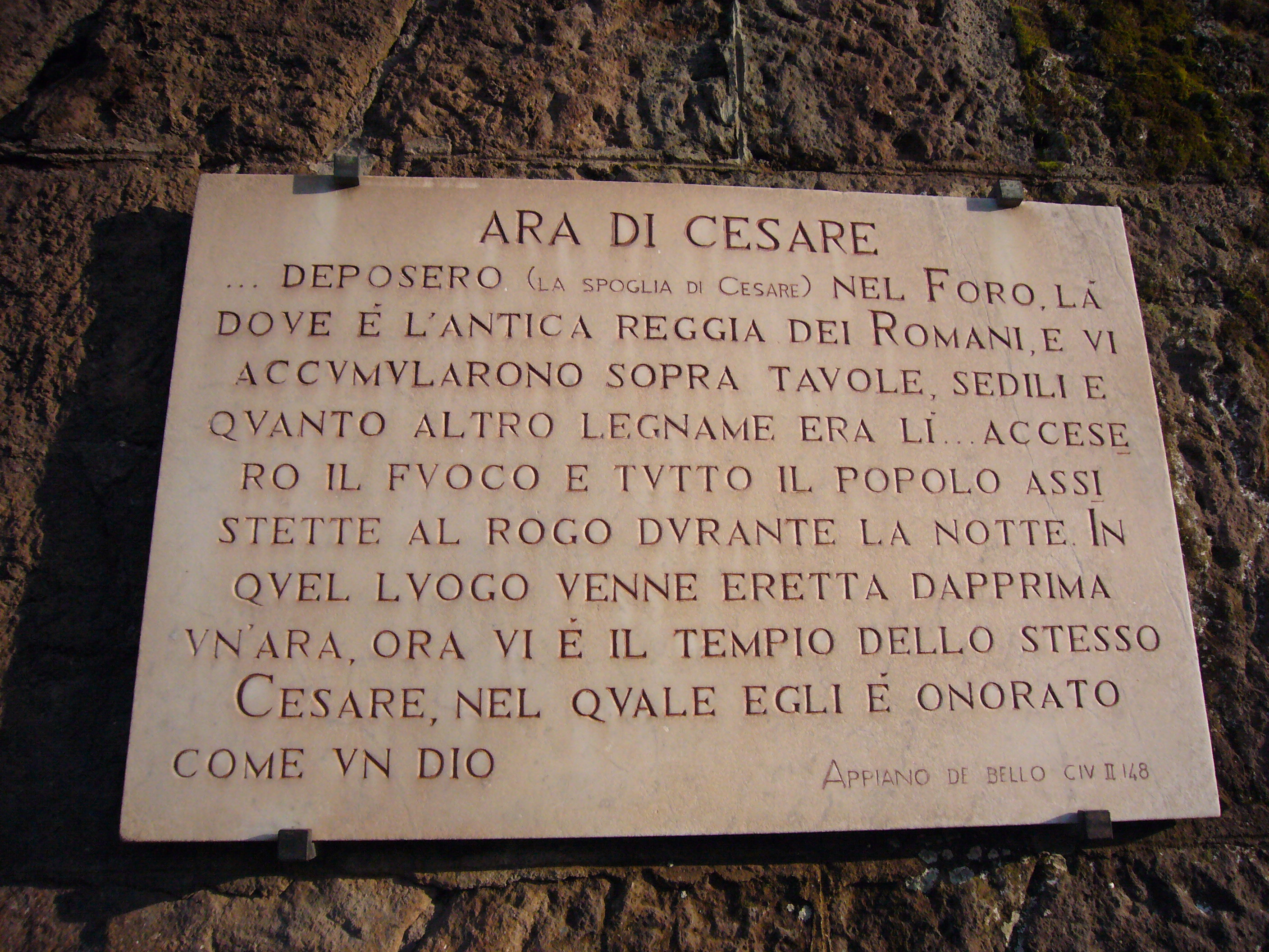 Caesar's altar, Rome. By Howard Hudson (Feb, 2007)